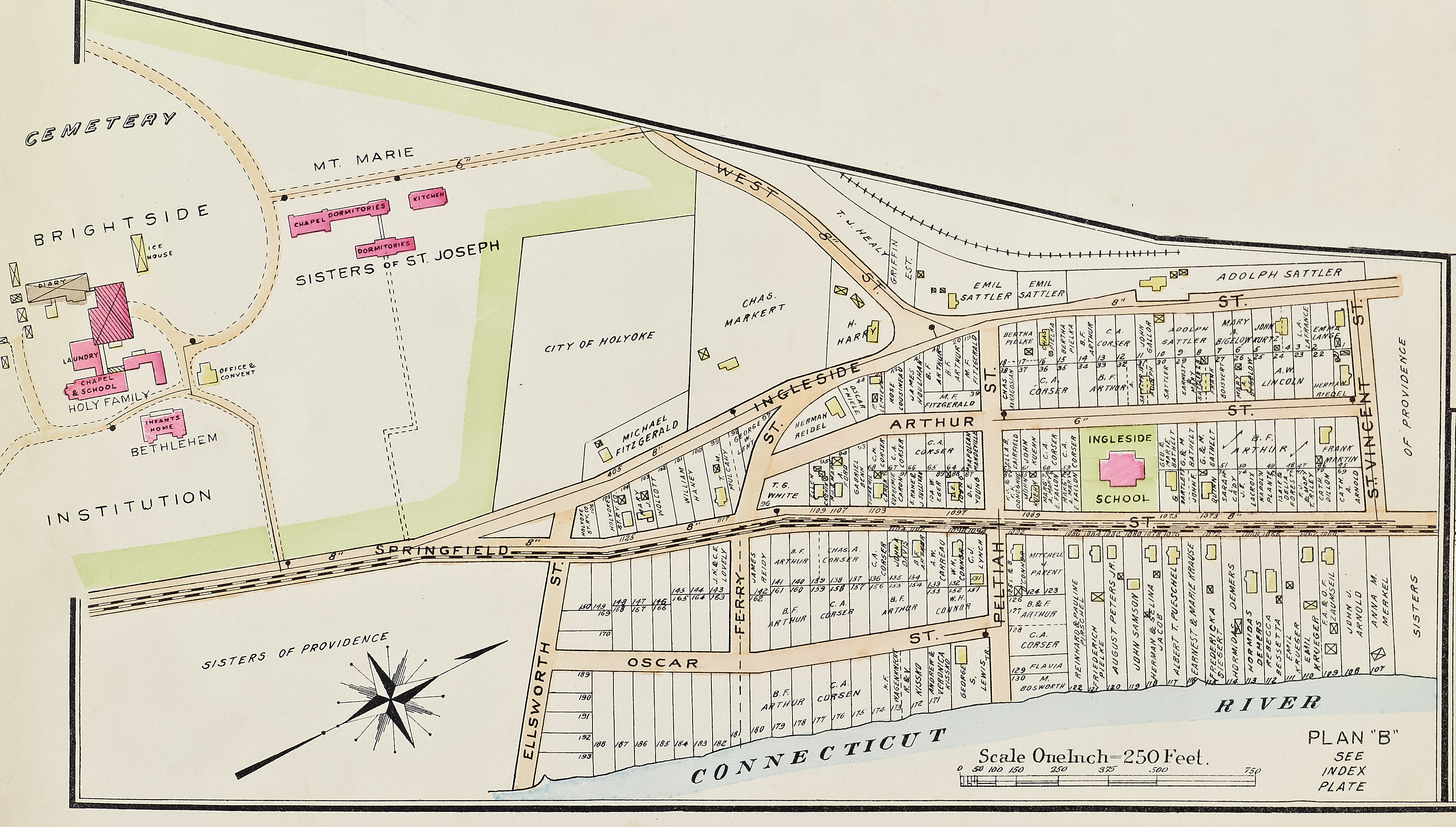 Inset map showing part of the the neighborhood of Ingleside, Holyoke, Massachusetts, 1911